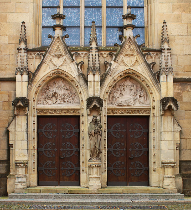 St. Pantaleon Church in Muenster-Roxel, north-entrance